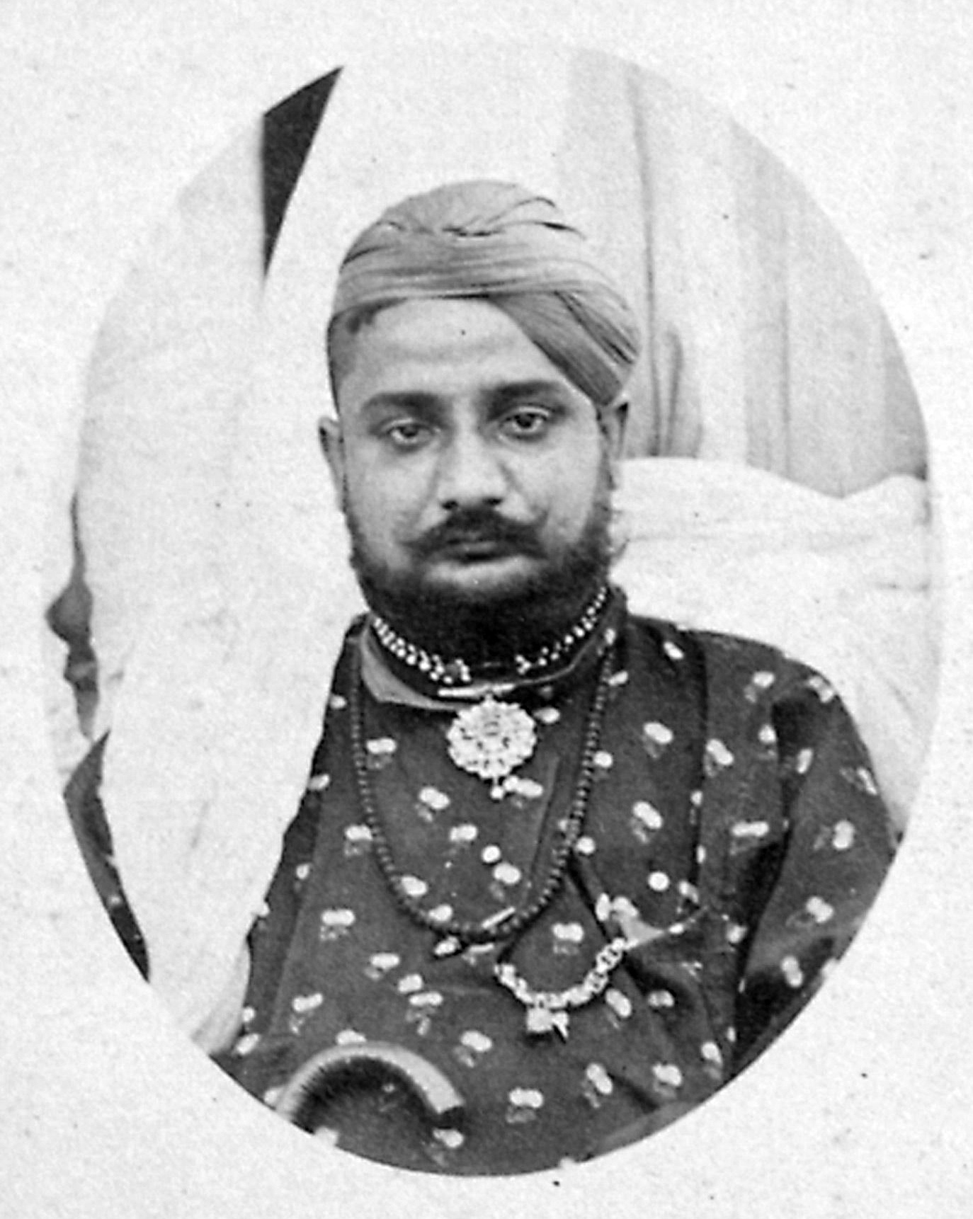 Head-and-shoulders carte-de-visite portrait of Gopal Singh, Raja of Chamba, 1870-73 from the 'Album of cartes de visite portraits of Indian rulers and notables' taken by Bourne and Shepherd in the early 1870s. Gopal Singh came to power in 1870 but abdicated in 1873; he died in March 1895 at Manjir. He is credited with building a beautiful palace at Jandarighat as his summer residence.